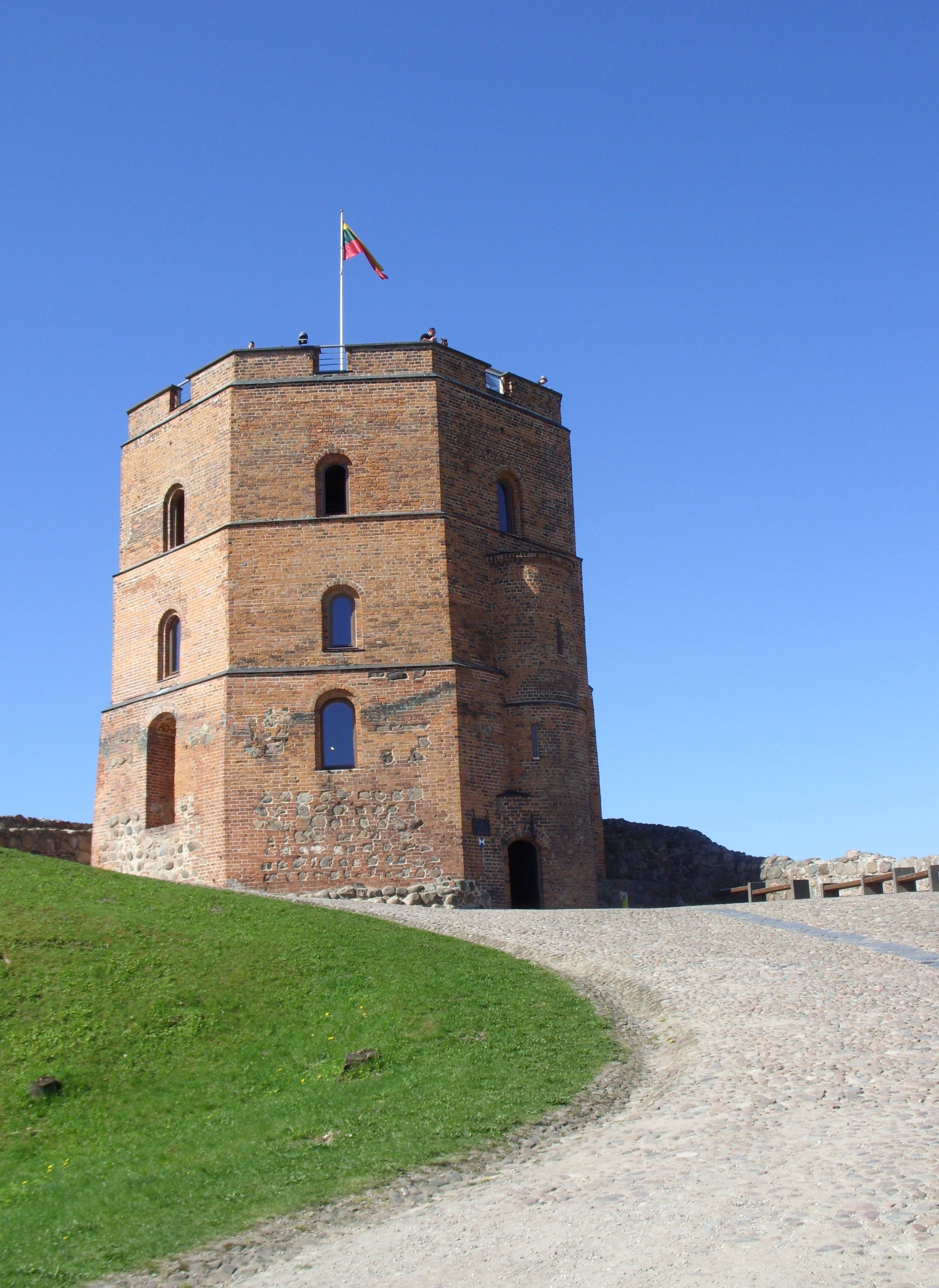 Gediminas Tower, Vilnius.